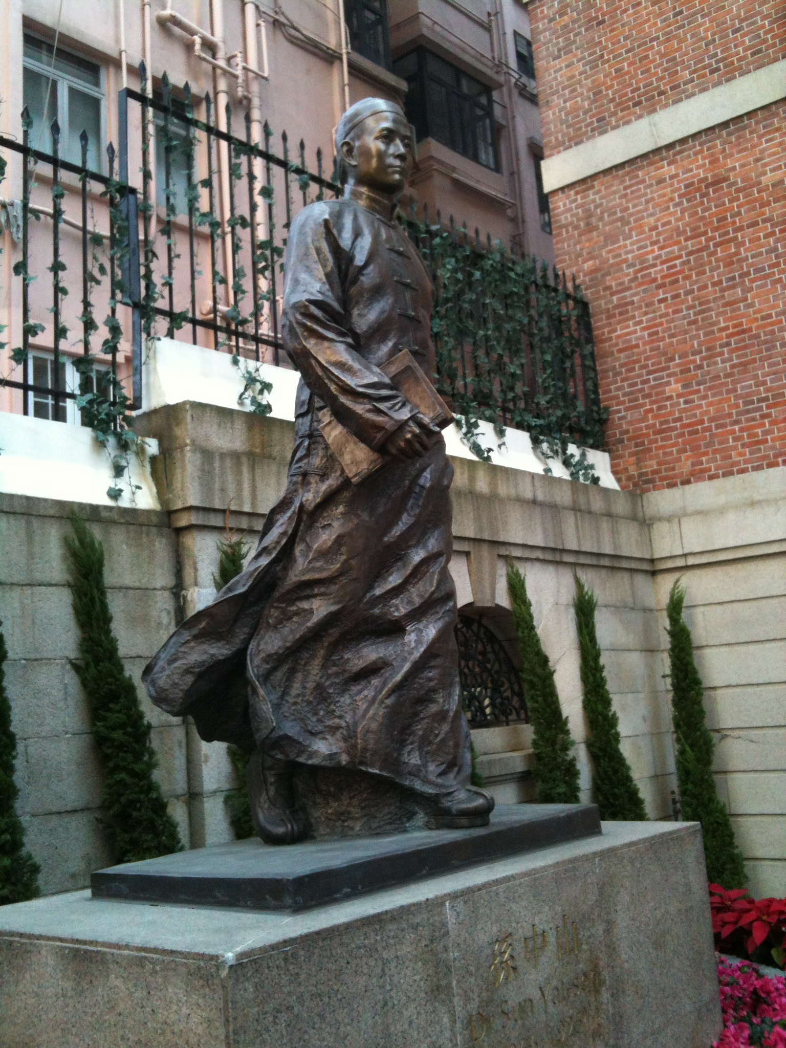 A statue of Dr. Sun Yat-sen in the grounds of the Dr. Sun Yat-sen Museum, Kom Tong Hall, Hong Kong.